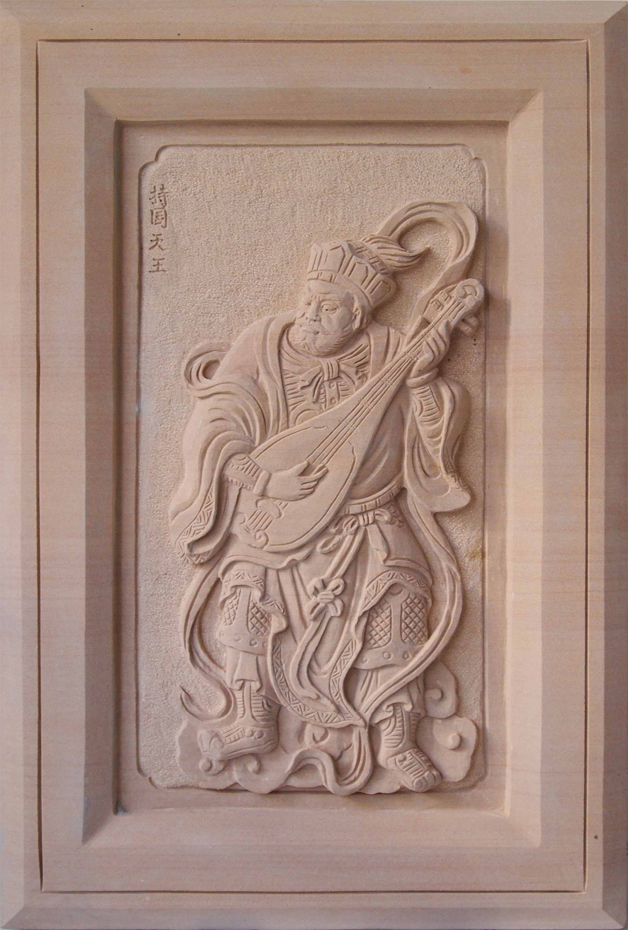 King of the east and God of music